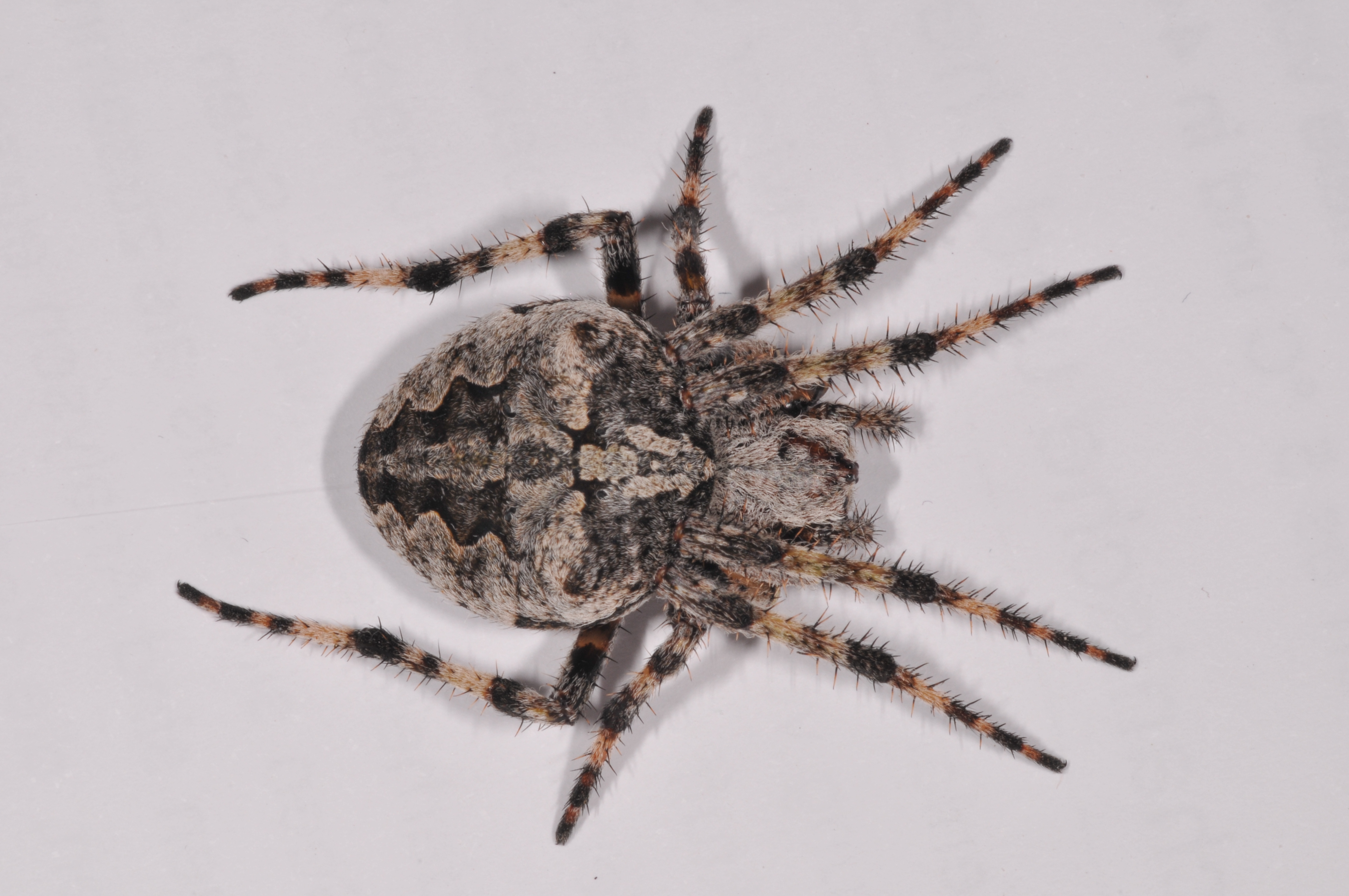 Araneus cf. circe (see also discussion), 26 mm, Croatia, Istria, Brsec( 15 km south Lovran, 45°10`23,80``N 14°13`37,25``E